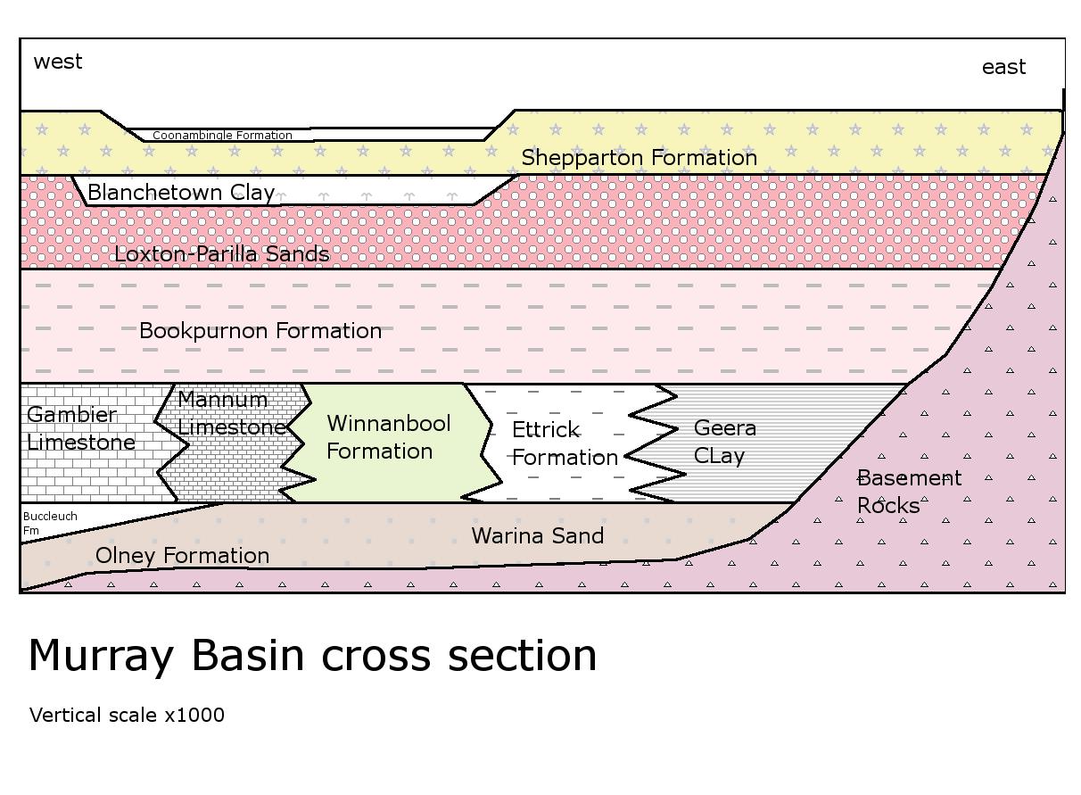 Geological cross section of Murray Basin New South Wales Australia vertical scale exaggerated 1000x